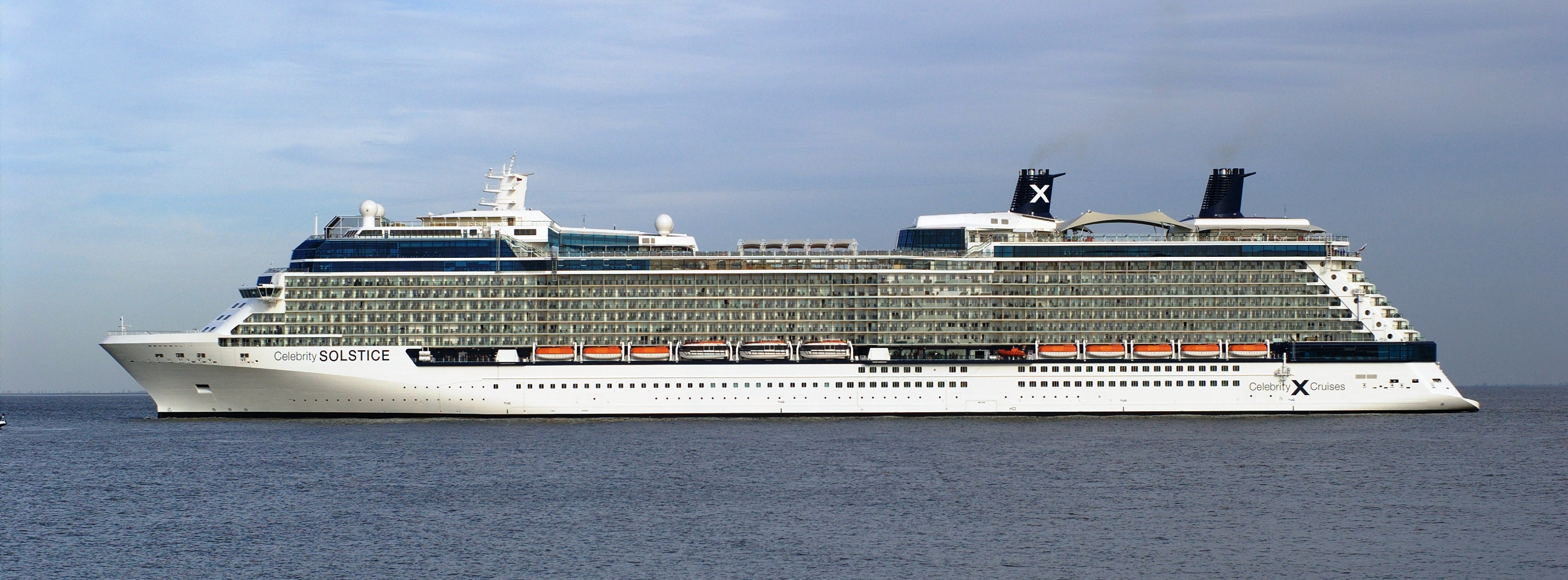 The "Celebrity Solstice" in Cuxhaven, Germany.